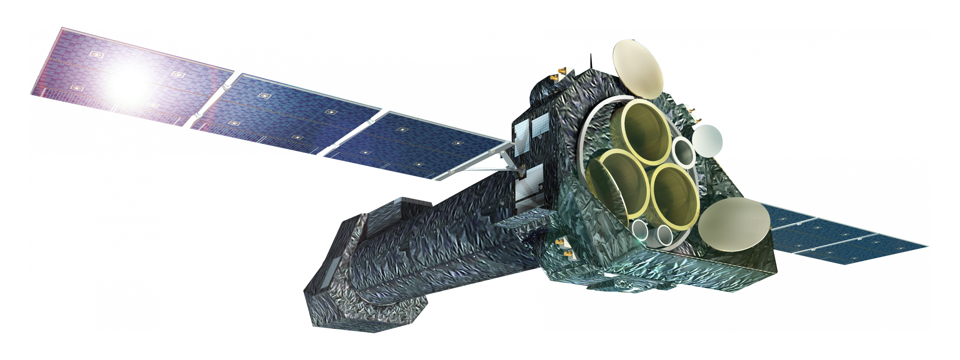 Artist's rendering, from NASA, of the European Space Agency's XMM-Newton spacecraft, in its in-flight configuration. The XMM-Newton mission, short for "X-ray Multi-mirror Mission" focuses on X-ray astronomy, making use of a large, multi-mirror X-ray space observatory to carry out observations and data collection.